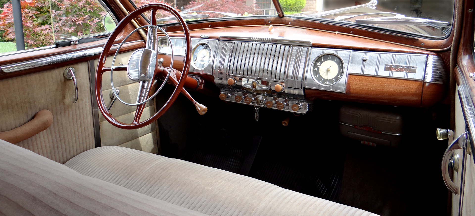 1946 Dodge 4-door Custom series model D24C. L-head (flathead) inline 6-cylinder engine displacing 230 cubic inches producing 102 horsepower. Fluid Drive (fluid coupling) driving a 3-speed manual transmission. 6-volt positive ground electrical system.